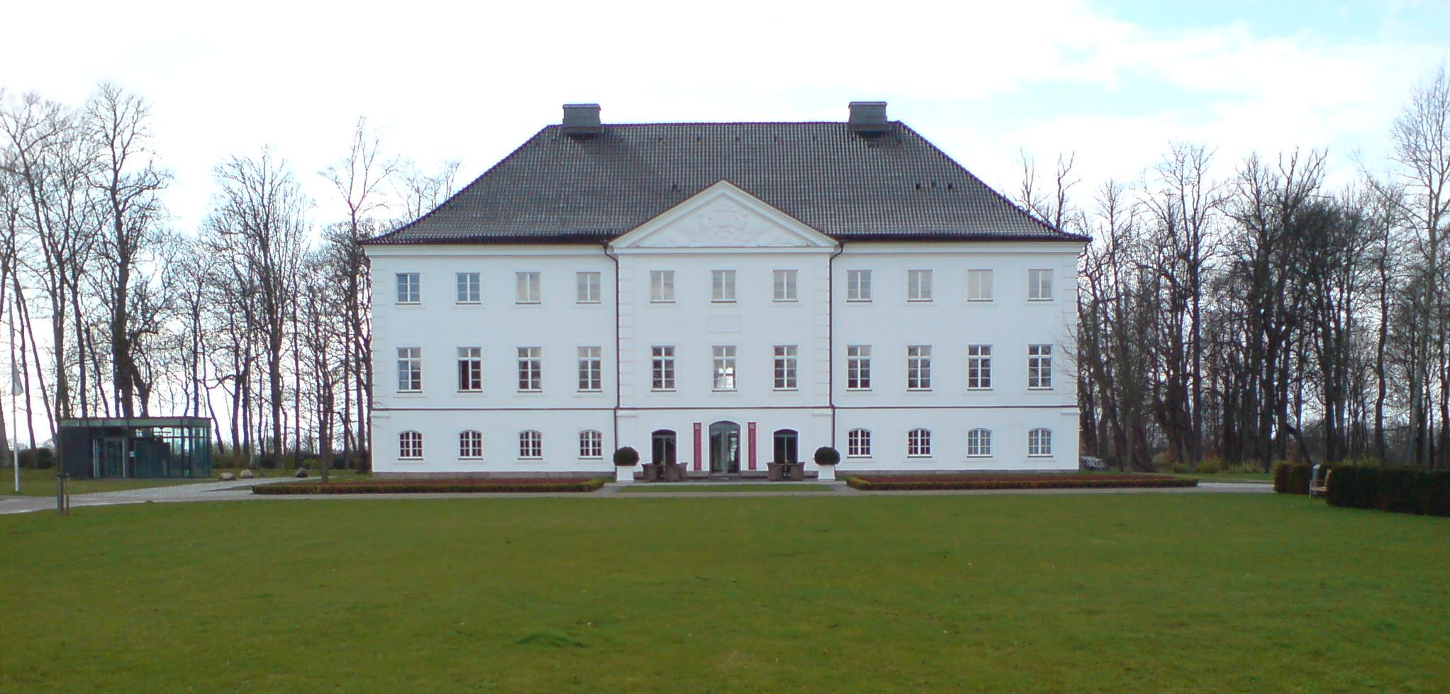 Groß Schwansee Manor